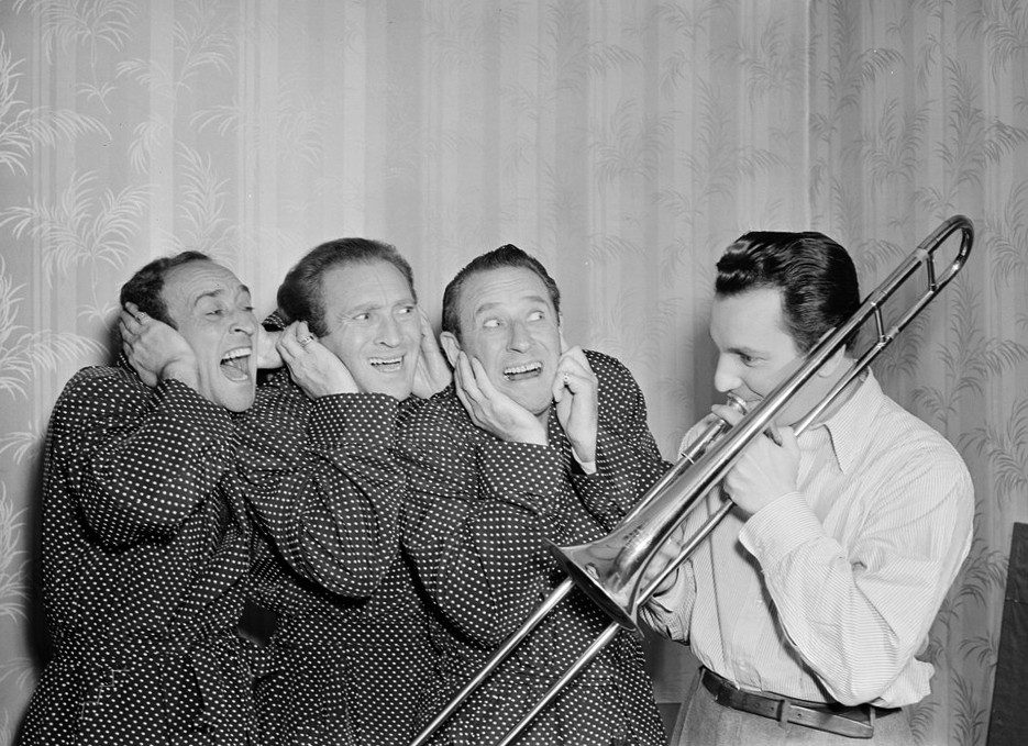 Buddy Morrow and Ritz Brothers, New York, N.Y.